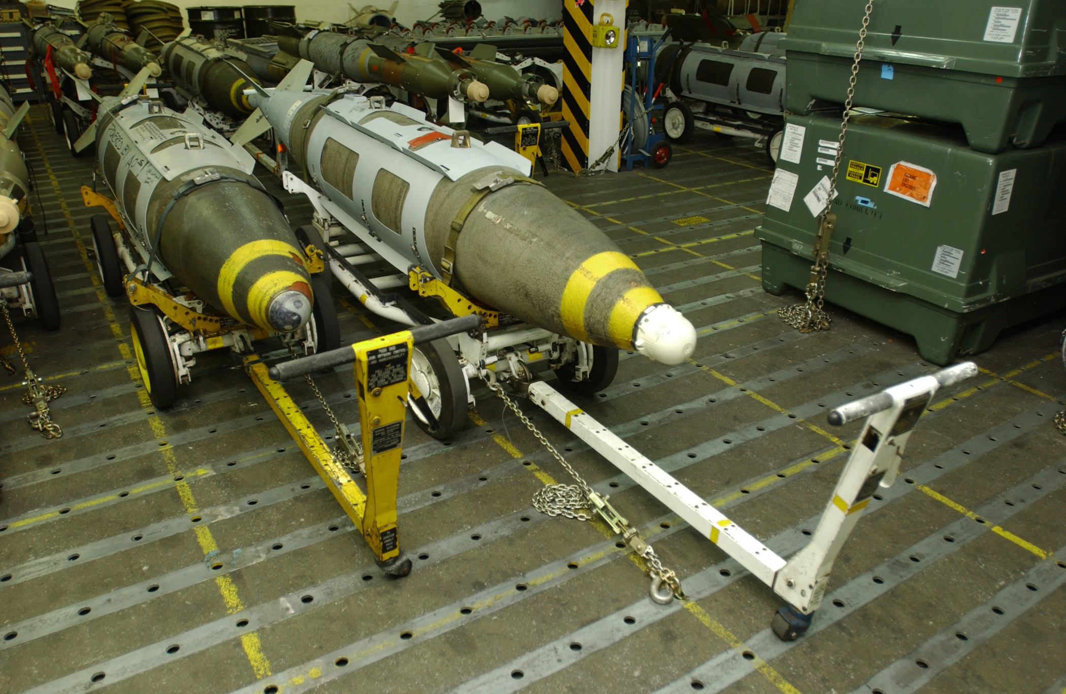 020227-N-2722F-030 At sea aboard USS John C. Stennis (CVN 74) Feb. 27, 2002 -- 2000 lb. MK-84 Joint Direct Attack Munitions (JDAM) stand ready in weapons magazines for transport to the flight deck. John C. Stennis and Carrier Air Wing Nine (CVW-9) are conducting combat missions in support of Operation Enduring Freedom. U.S. Navy photo by Photographer's Mate 2nd Class James A. Farrally II. (RELEASED)